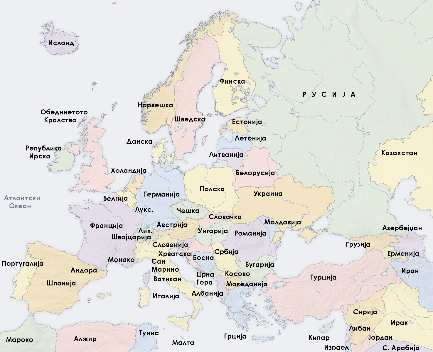 Map of the European countries.